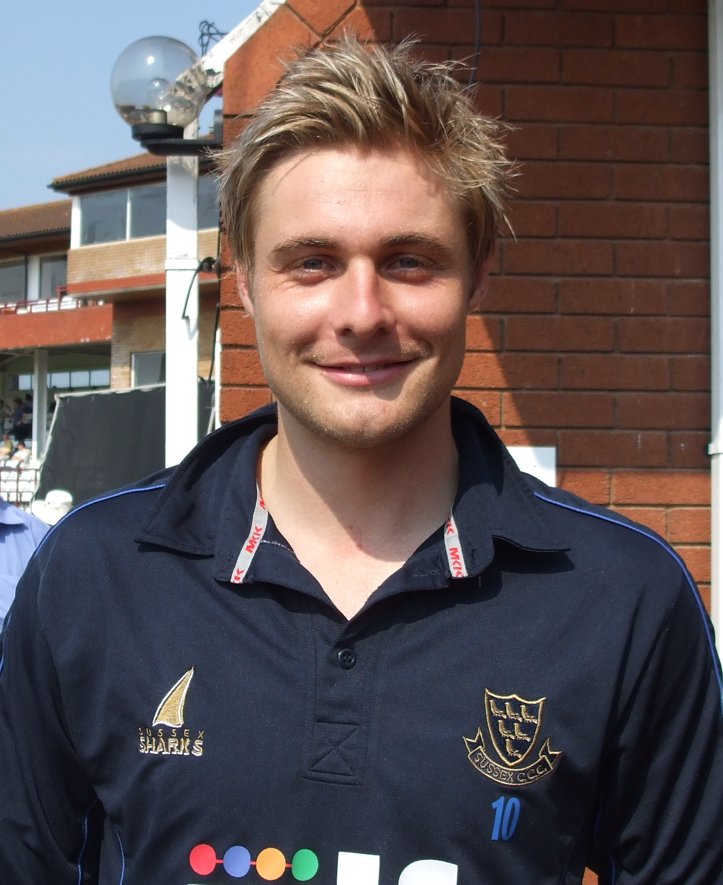 Luke Wright (Sussex cricketer) at the County Ground in Taunton, 2008